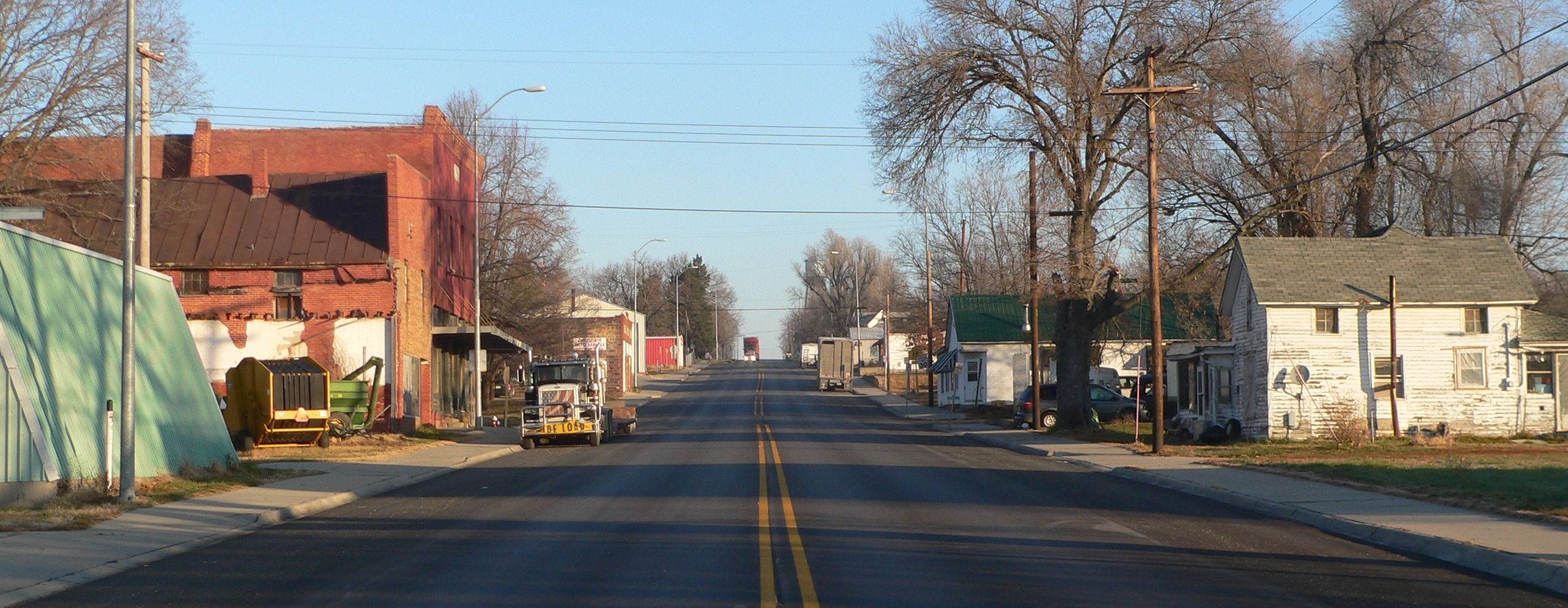 Downtown Dawson, Nebraska: Ridge Street, seen from the south.